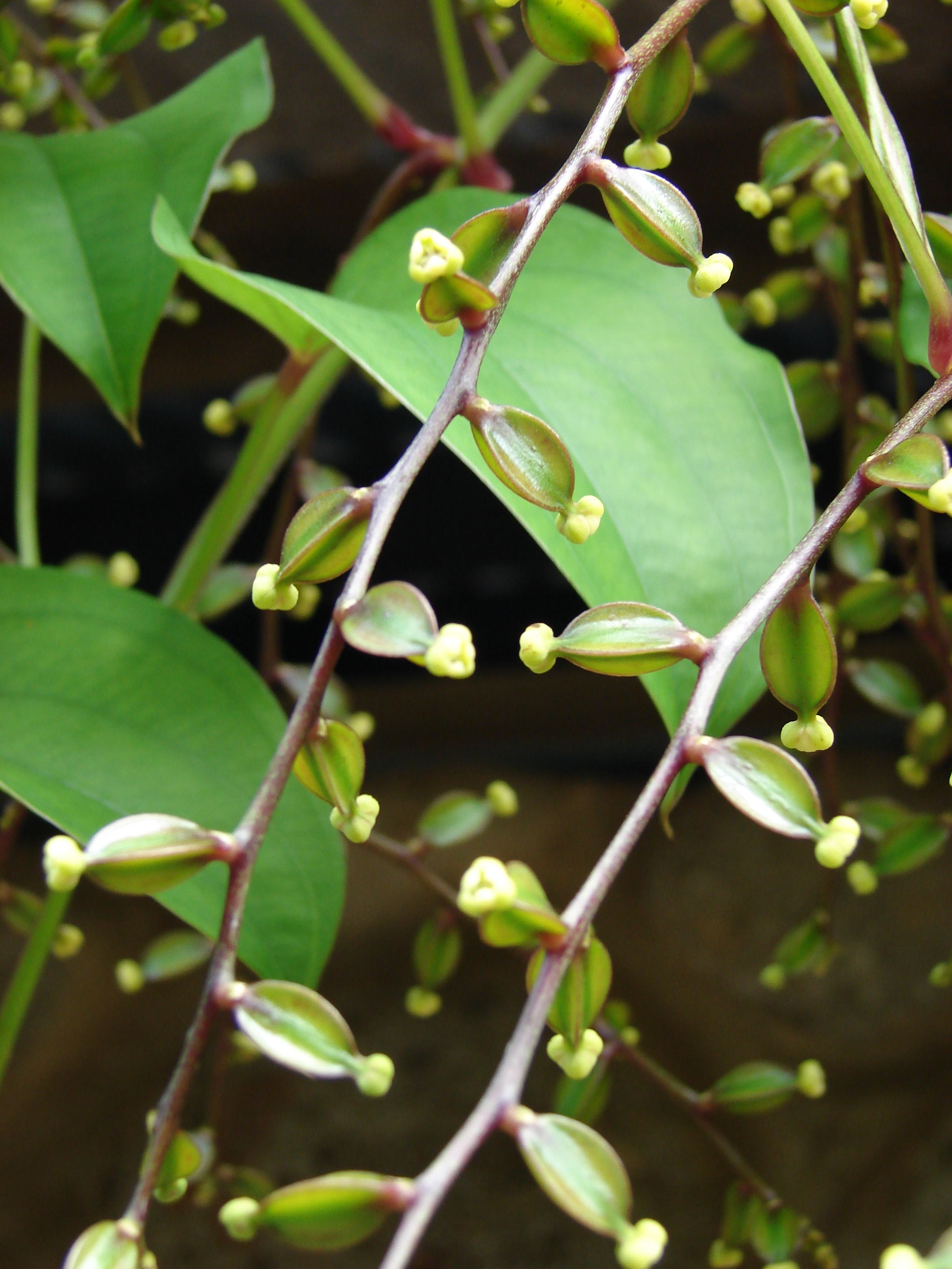 Dioscorea alata (flowers). Location: Maui, Maui Nui Botanical Garden